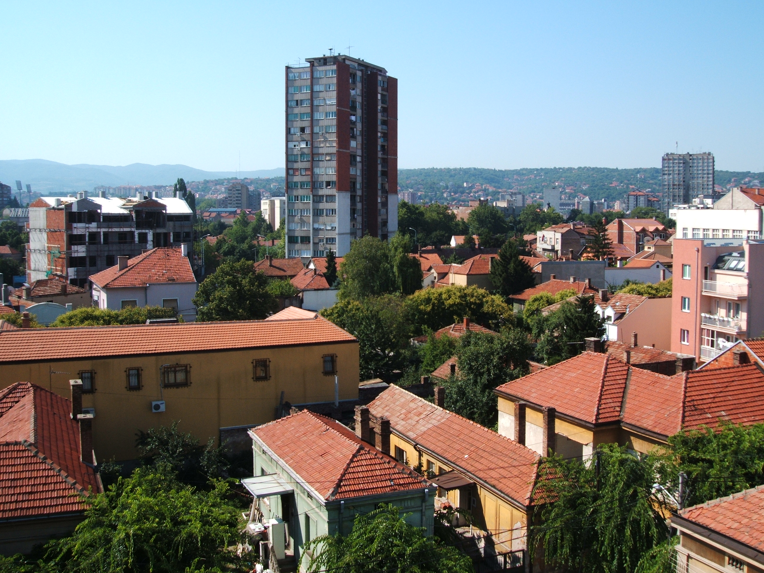 Ponorama of Niš, Serbia.